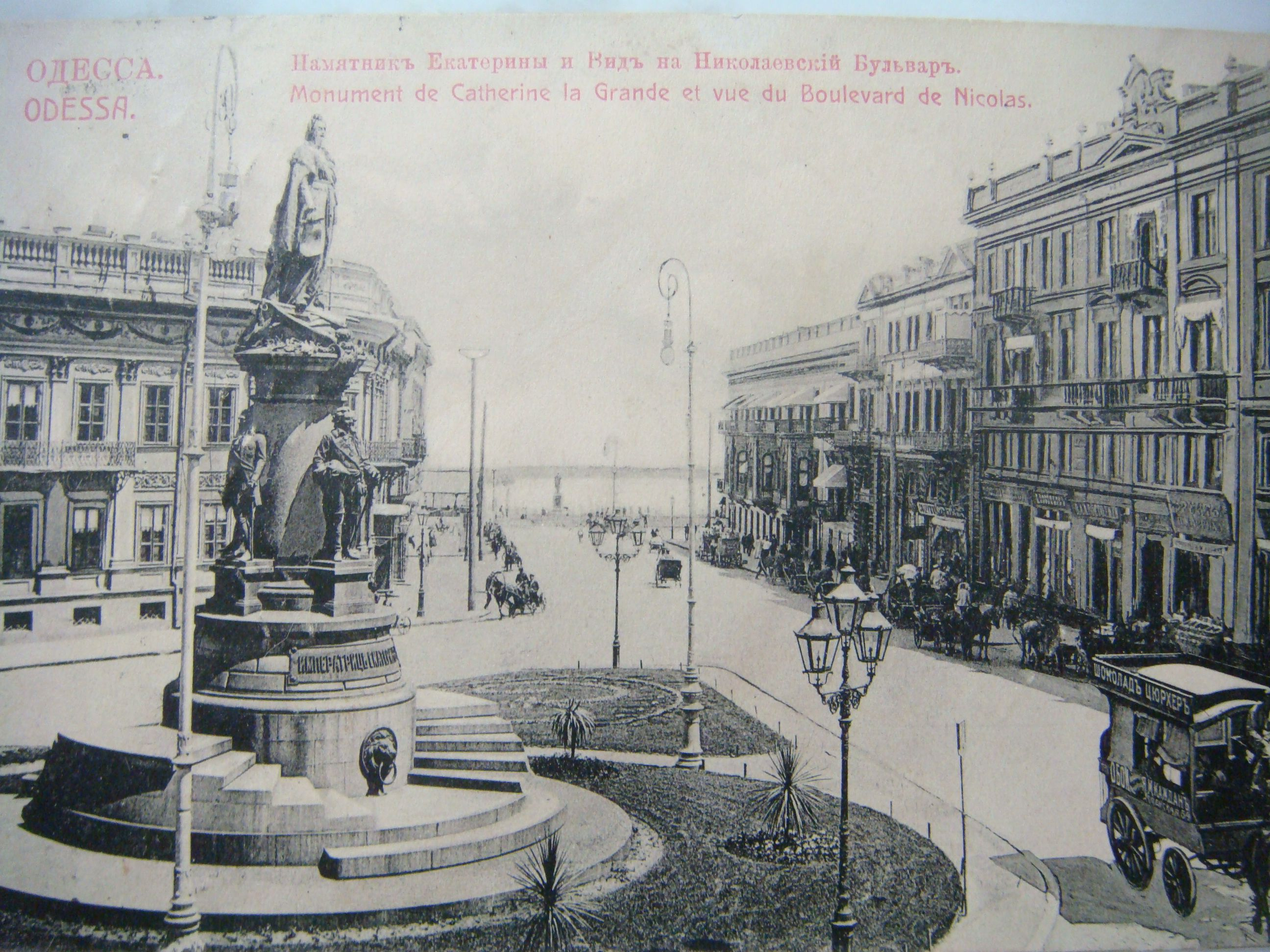 Open letter post card with view to Catherinskaya square and Nikolaev boulevard in Odessa. Early XX century.